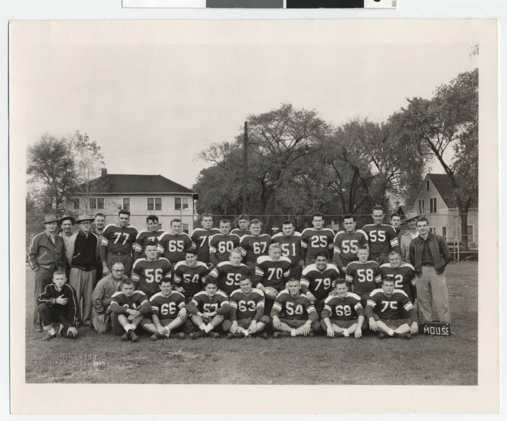 Many of the players on the team when this photo was taken were Jewish boys from the North Side neighborhood, including # 25, Phil Levin, #55 Zell Schrell, and #68, Dick Jacobs. Al Berman, the coach, is on the left with hat, varsity jacket and glasses. Date: 1949 Source: 8 x 10 Format: Black and white commercial photo Subject: Sports and recreation; North High School Coverage: Minneapolis; Hennepin; Minnesota; United States Local Identifier: MHS570 Link to our record: From the Steinfeldt Photography Collection of the Jewish Historical Society of the Upper Midwest.